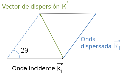 Scattering vector, difference between the wave vectors of the scattered and incident beams.